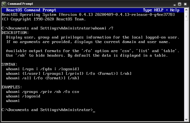 whoami command on ReactOS-0.4.13